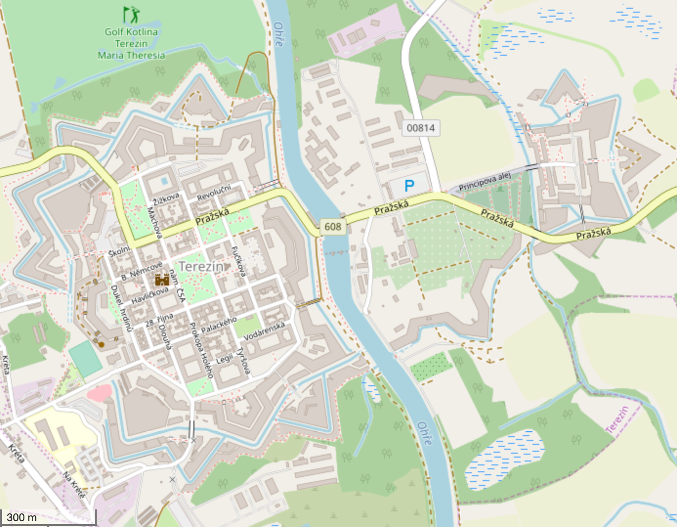 Terezín in the Open Street Map This map may be incomplete, and may contain errors. Don't rely solely on it for navigation.